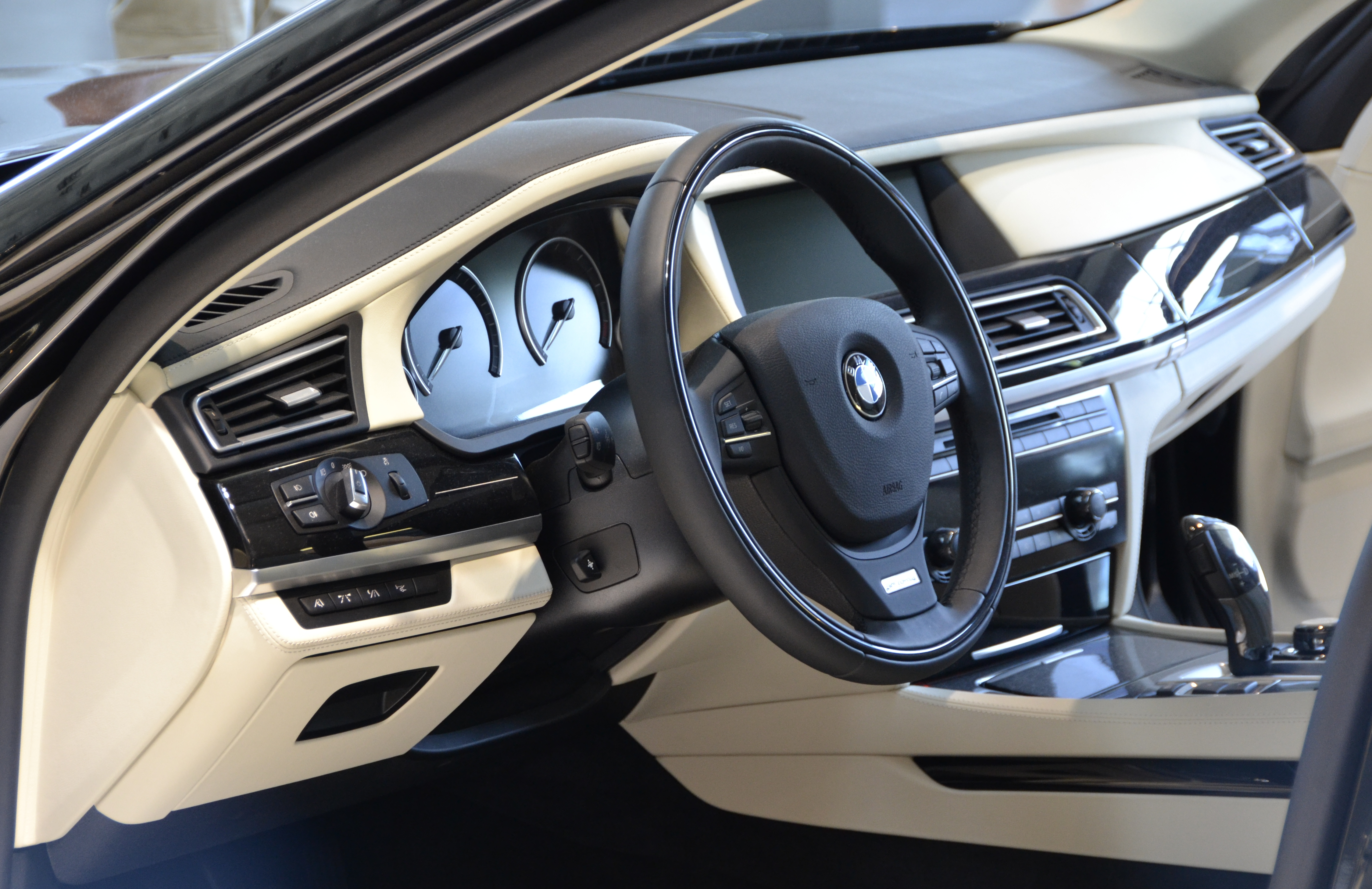 A BMW 760Li F02 in Munich, photographed in 2013.